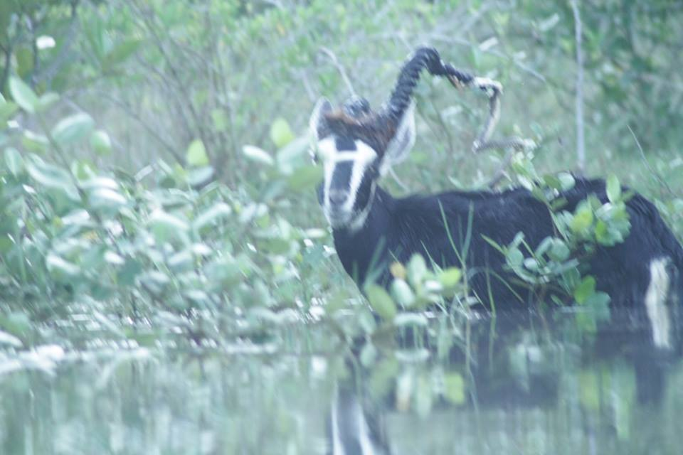 Kting Voar